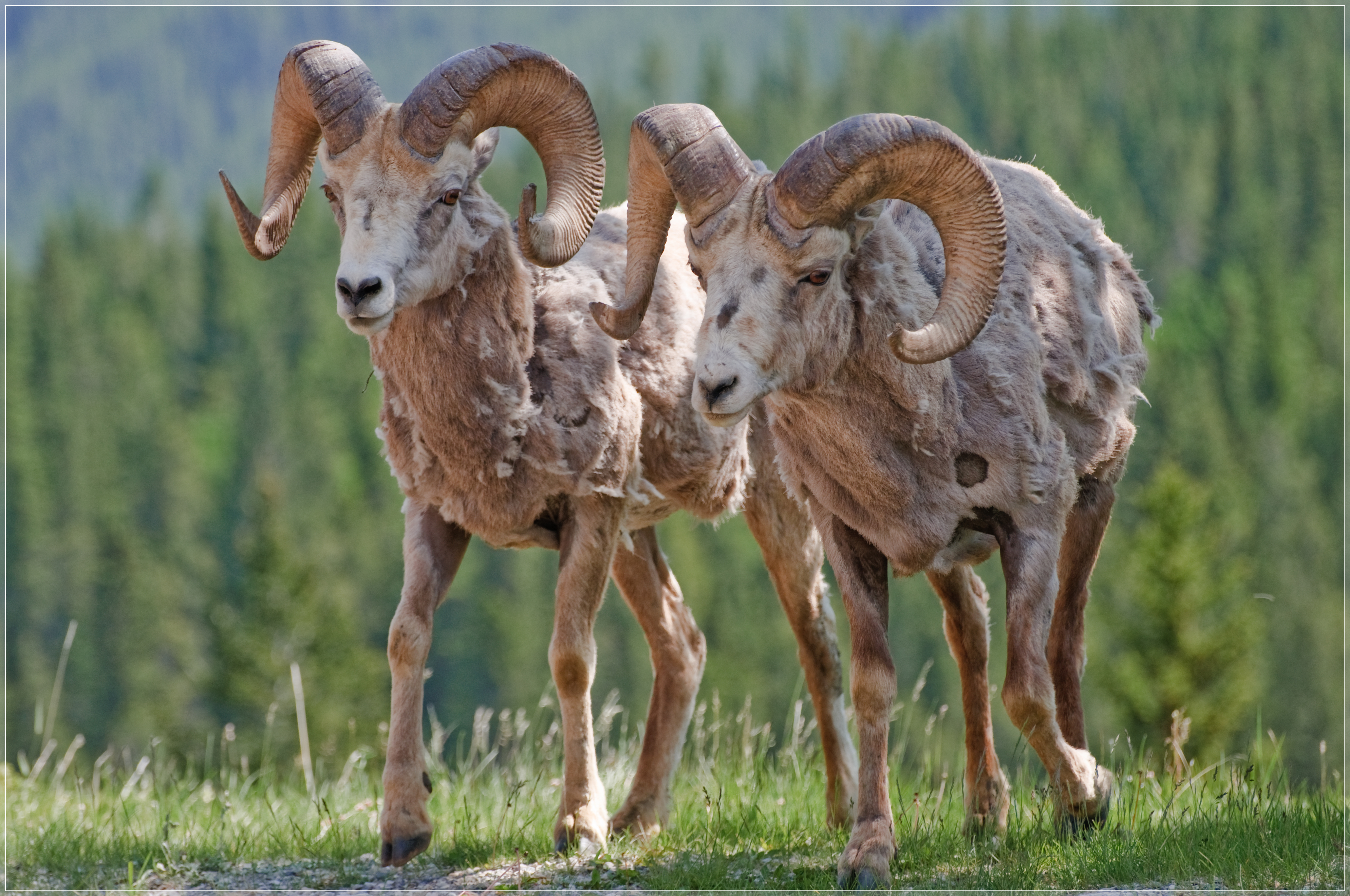 View On Black Bighorn sheep (Ovis canadensis) is a species of sheep in North America with large horns. The horns can weigh up to 30 pounds (14 kg), while the sheep themselves weigh up to 300 pounds (140 kg). Recent genetic testing indicates that there are three distinct subspecies of Ovis canadensis, one of which is endangered: Ovis canadensis sierrae.